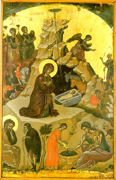 Christ born - Stavronikita monastery, Mt Athos - Theophanes of Crete, 1546